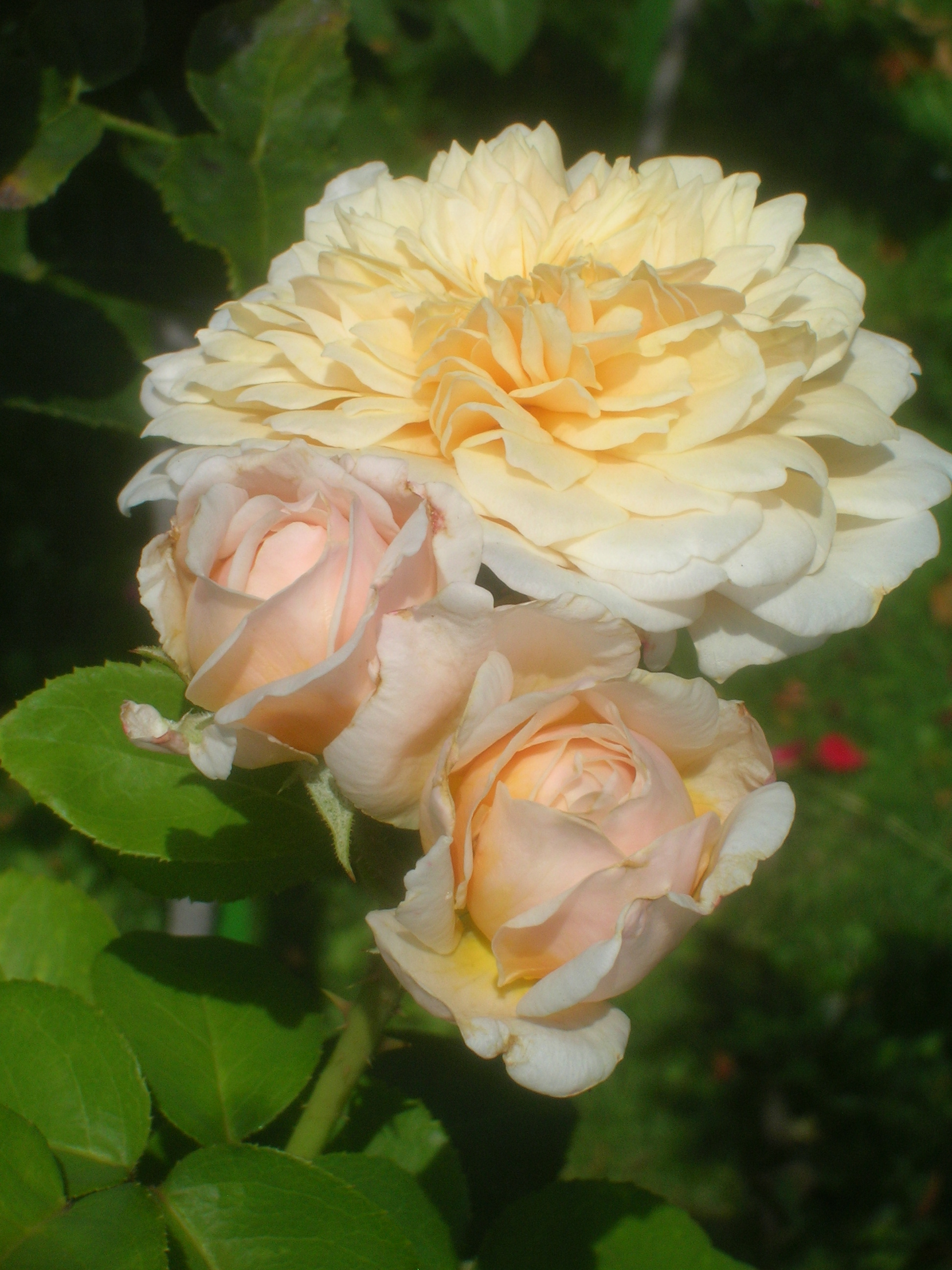 Rosa 'English Garden' in the Volksgarten in Vienna. Identified by sign.